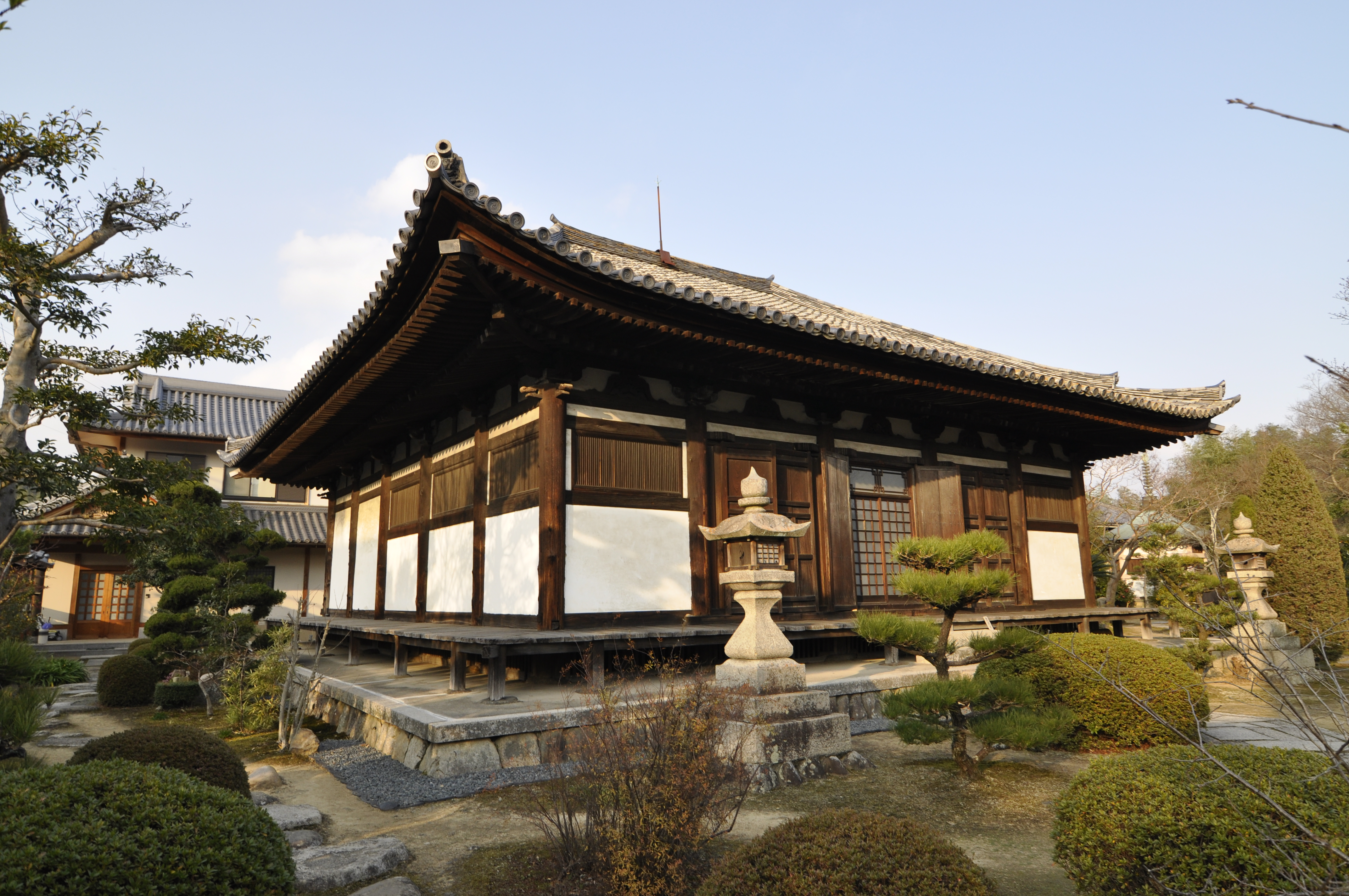 Kannon Hall of Kouonji Buddhist temple (Japan's National Treasure) in Kaizuka, Osaka. It was built in 726.